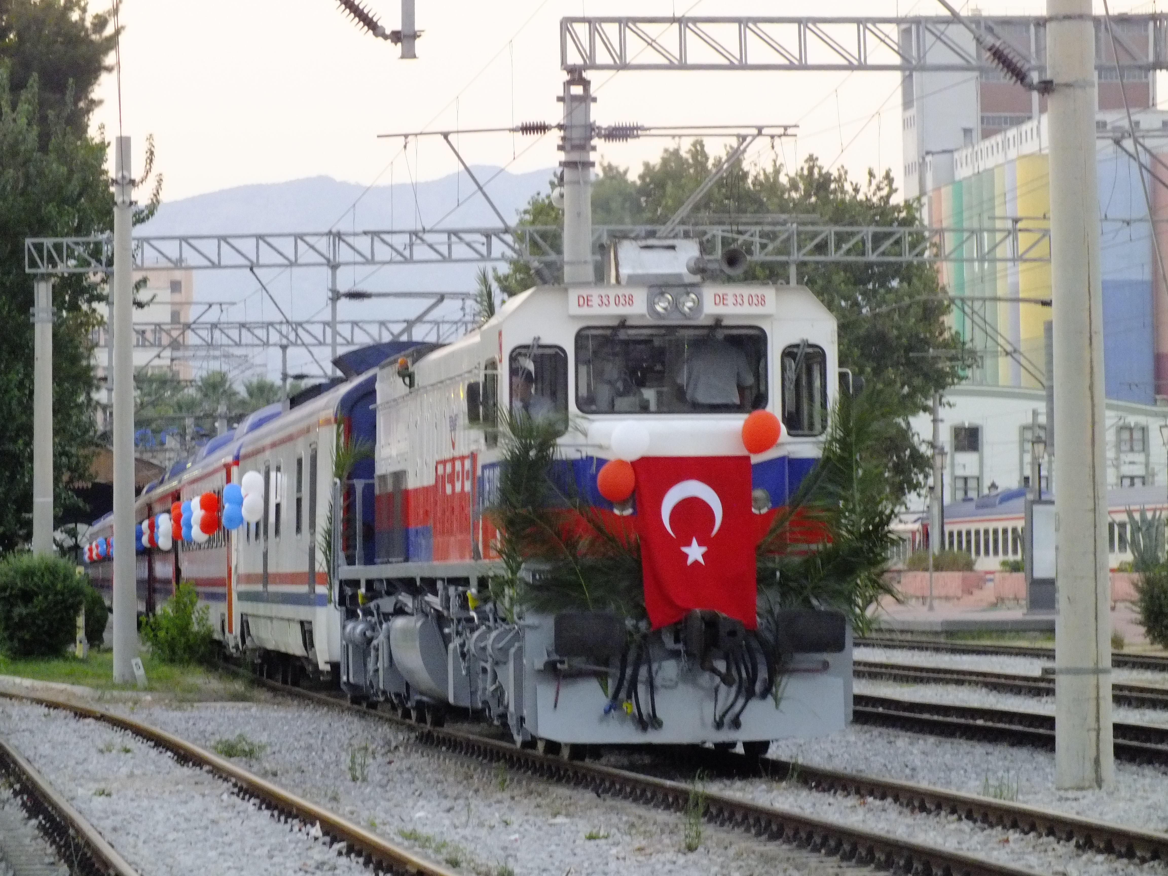 The Konya Blue Train departs Alsancak terminal for its inagural run to Konya.